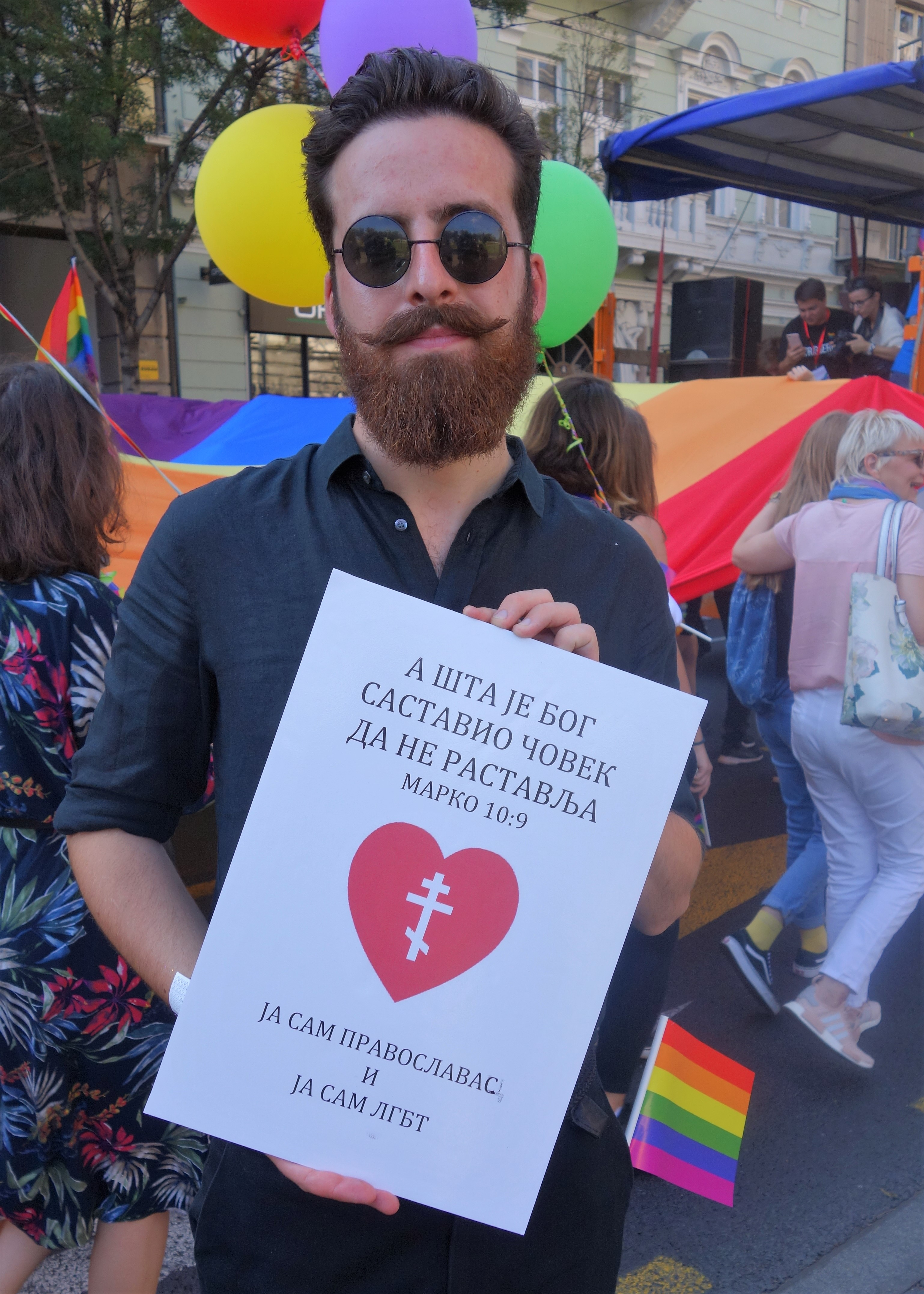 Belgrade Pride parade named "Say YES" took place on September 16th 2018, with over 1000 participants. Protest sign: I am Orthodox and I am LGBT.